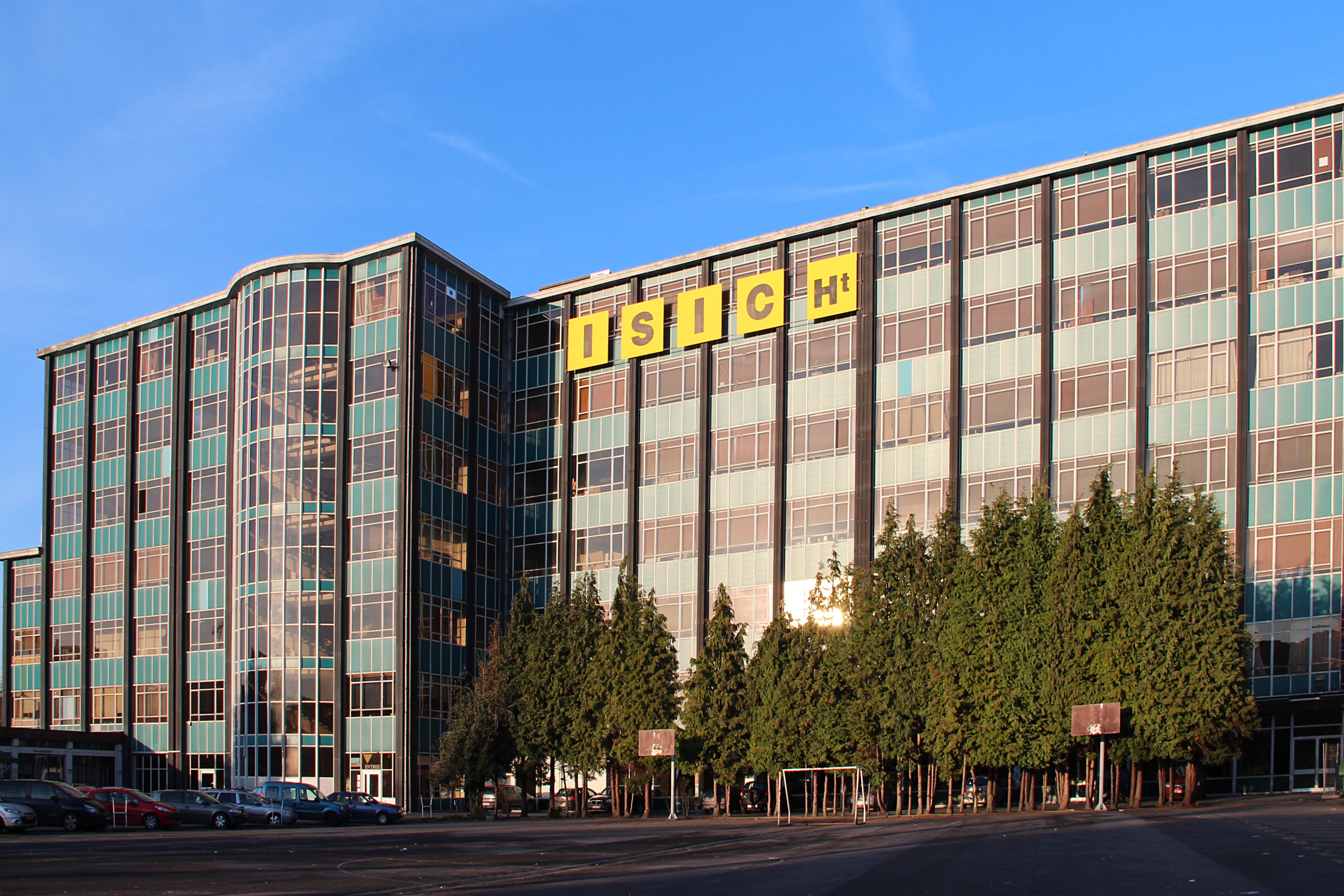 Mons (Belgium), building of the ISICHt - Mons Haute École Louvain en Hainaut (HELHa).